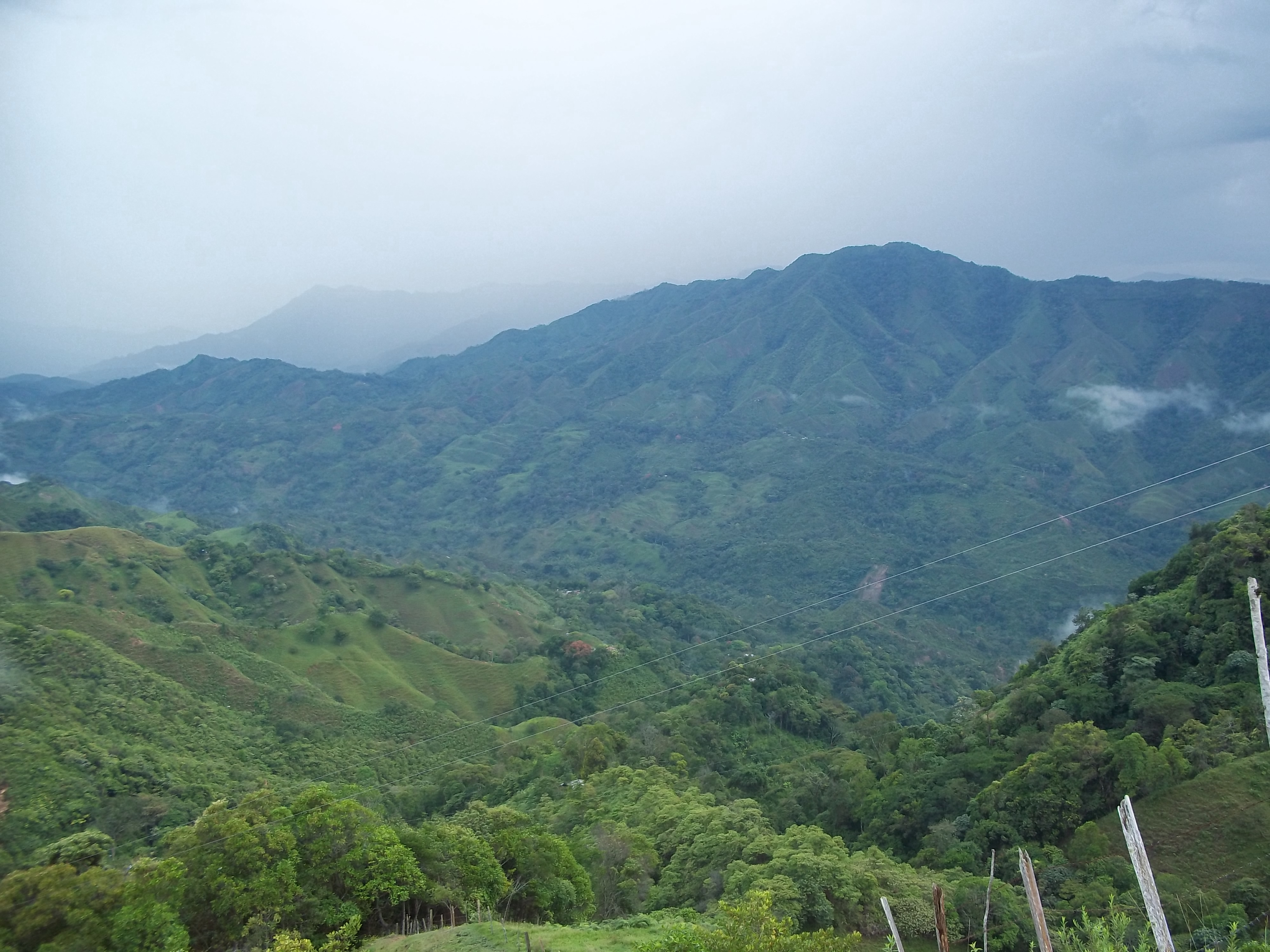 panorámica de la vereda Cruz Verde, desde este punto se puede observar parte de la variedad latitudinal y paisajista del municipio de Rioblanco